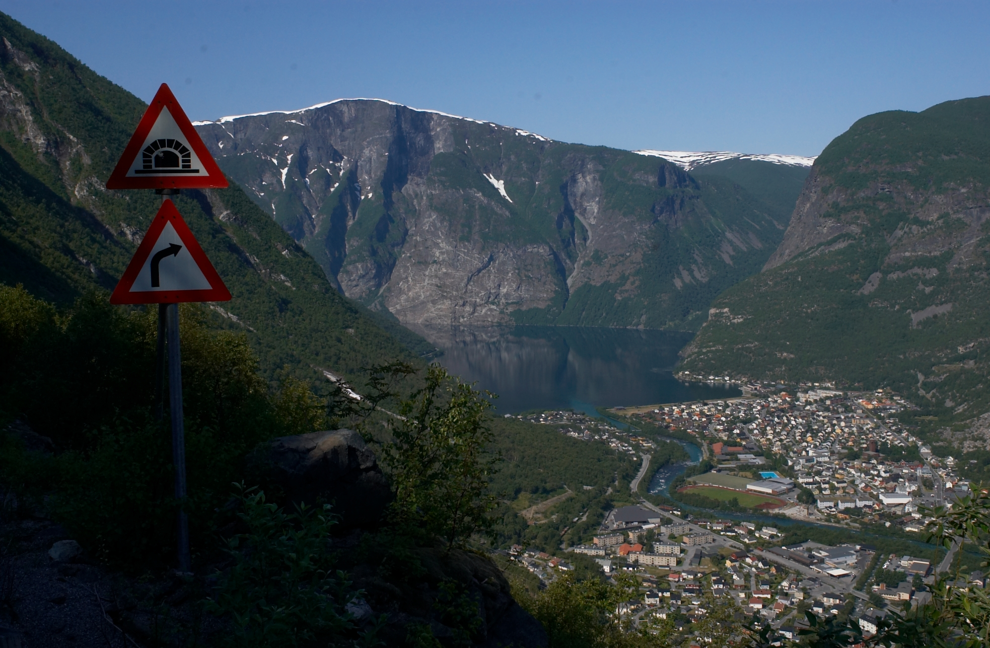 village Øvre Årdal by lake Årdalsvatnet. The river is called Utla. Picture taken at the road side while descending from Tyin. Notice the white (snow) outline of the mountain.